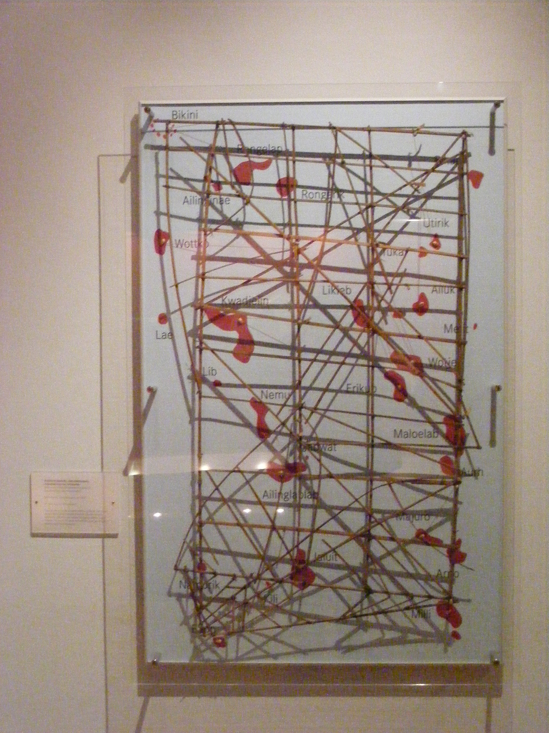 Micronesian navigation chart